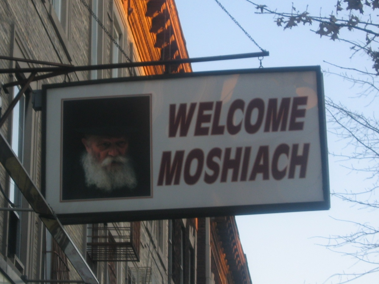 A Moshiach poster featuring the Rebbe that hangs over a building in Crown Heights.